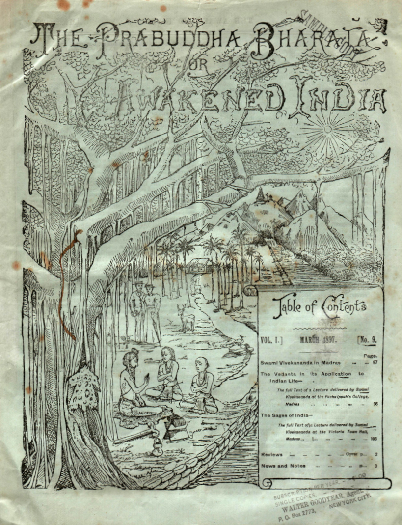 Front Cover of Prabuddha Bharata March 1897 Issue.